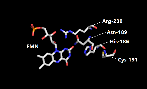 FMN prosthetic group and key residues at the active site of morphinone reductase.